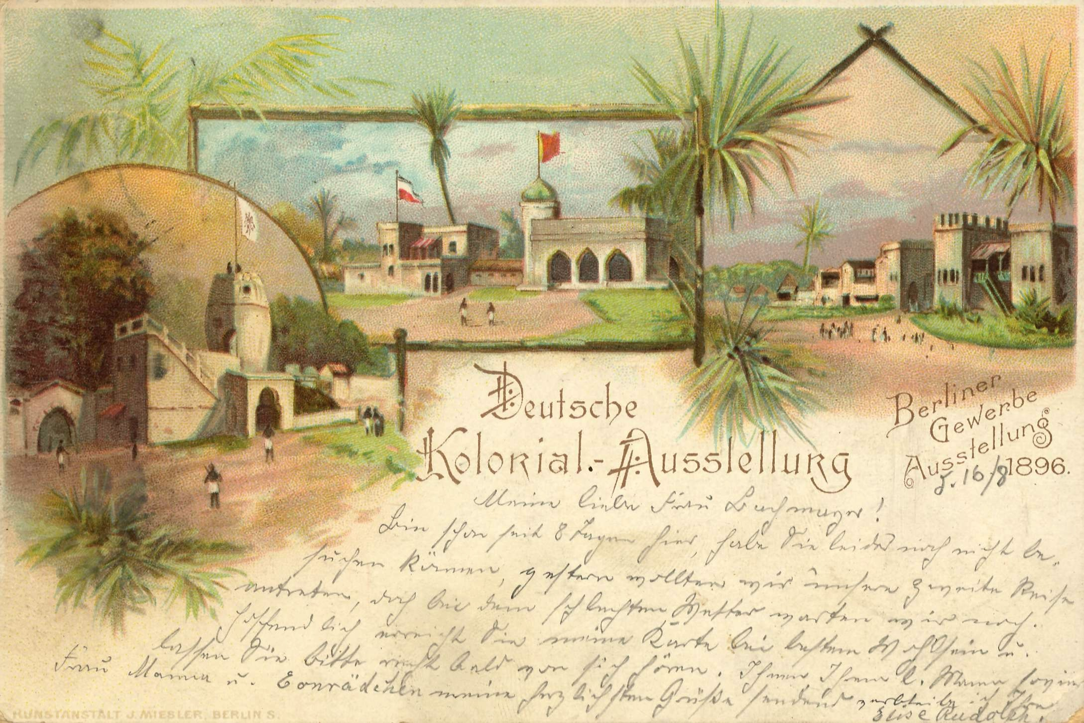 old picture postcard of Berlin industrial exhibition 1896 in Treptower Park - view of the colonial exhibition